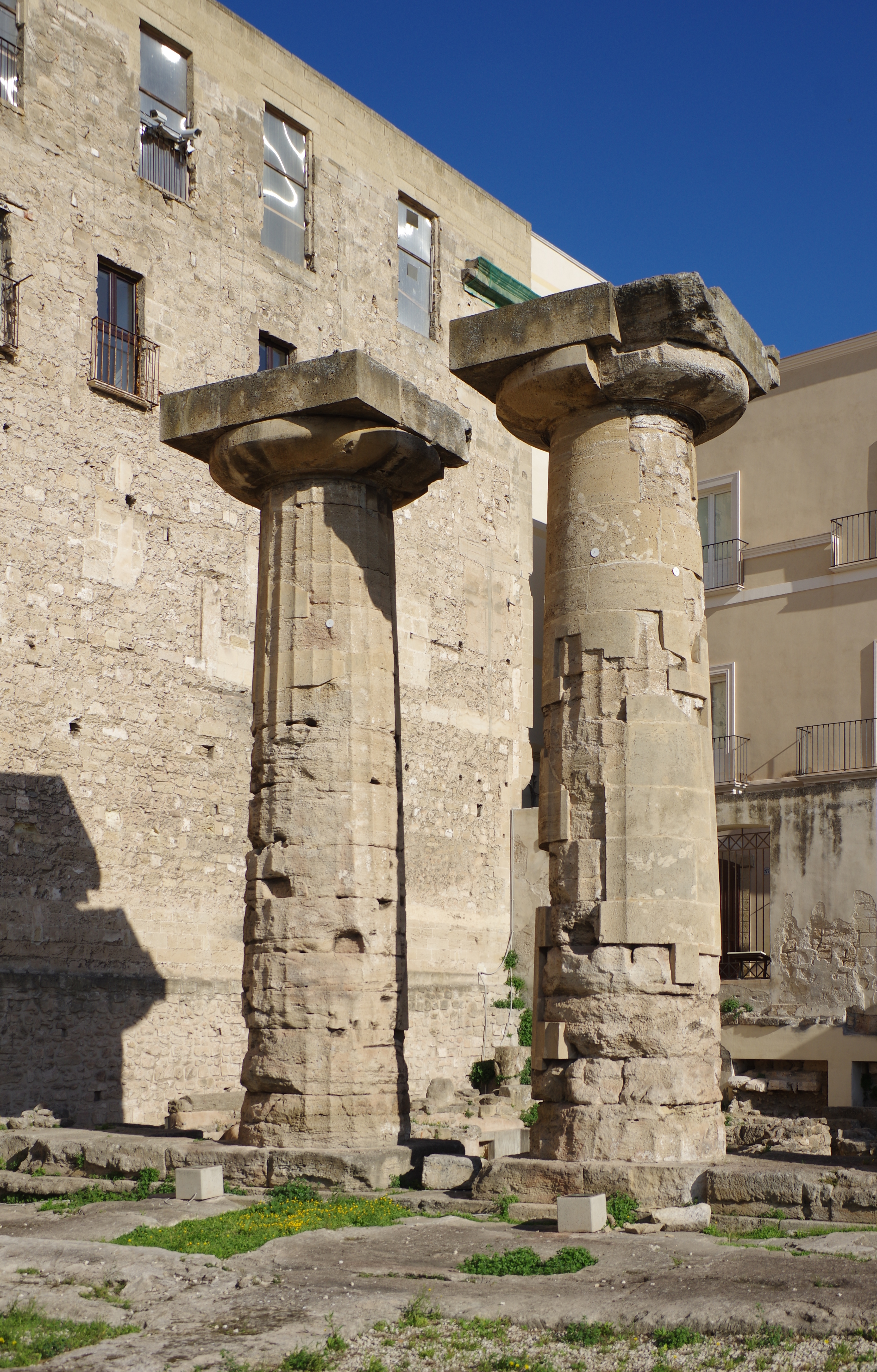 Italy, Taranto, doric columns